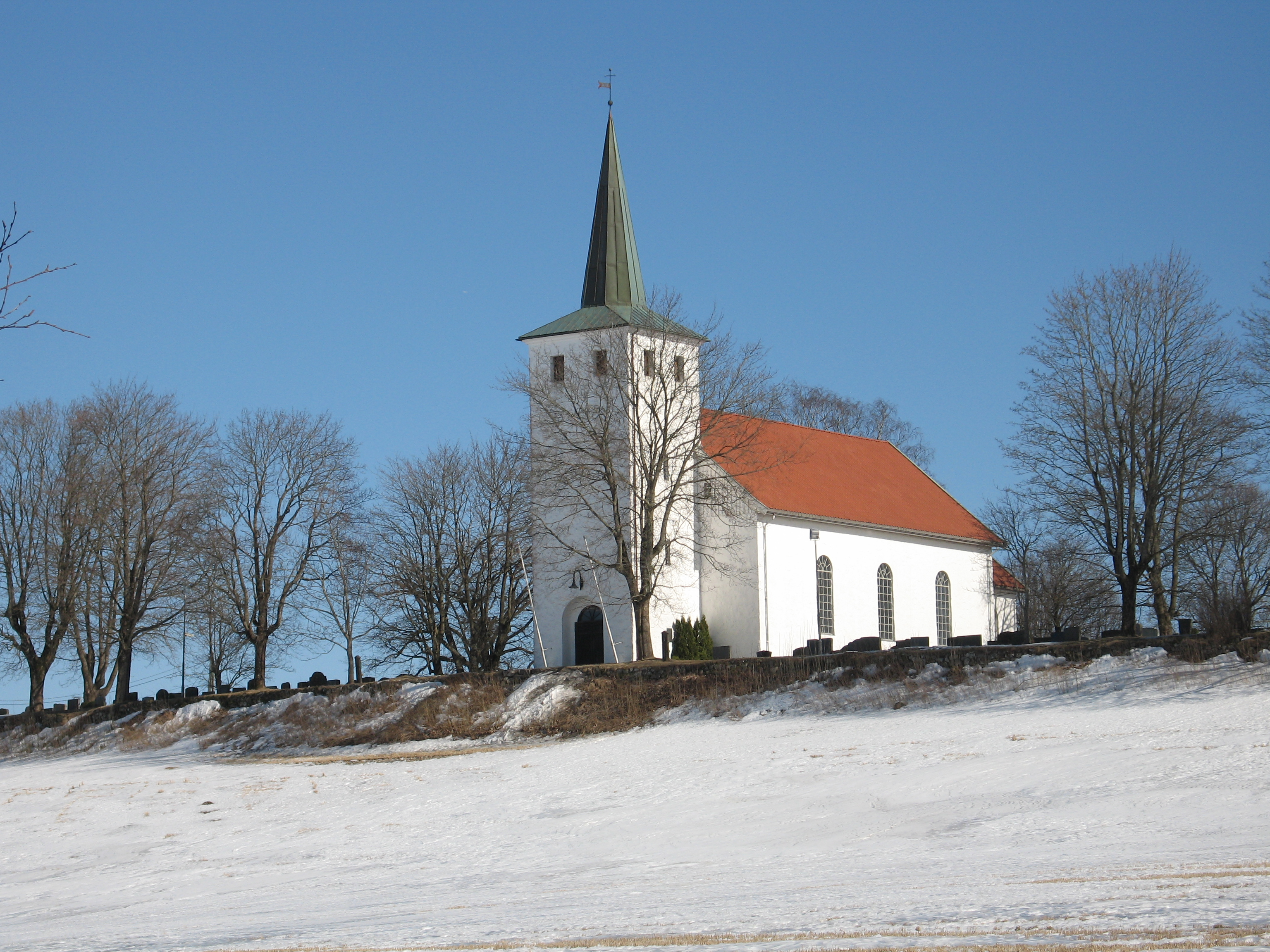 Skjee church in Stokke